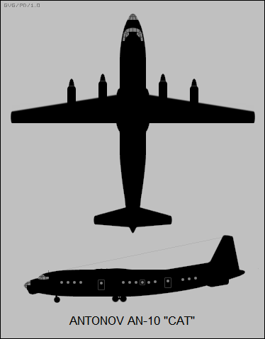 2-view silhouette of the Antonov An-10